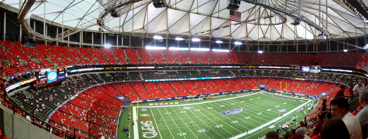 The Georgia Dome in Atlanta, Georgia, prior to a college football game.